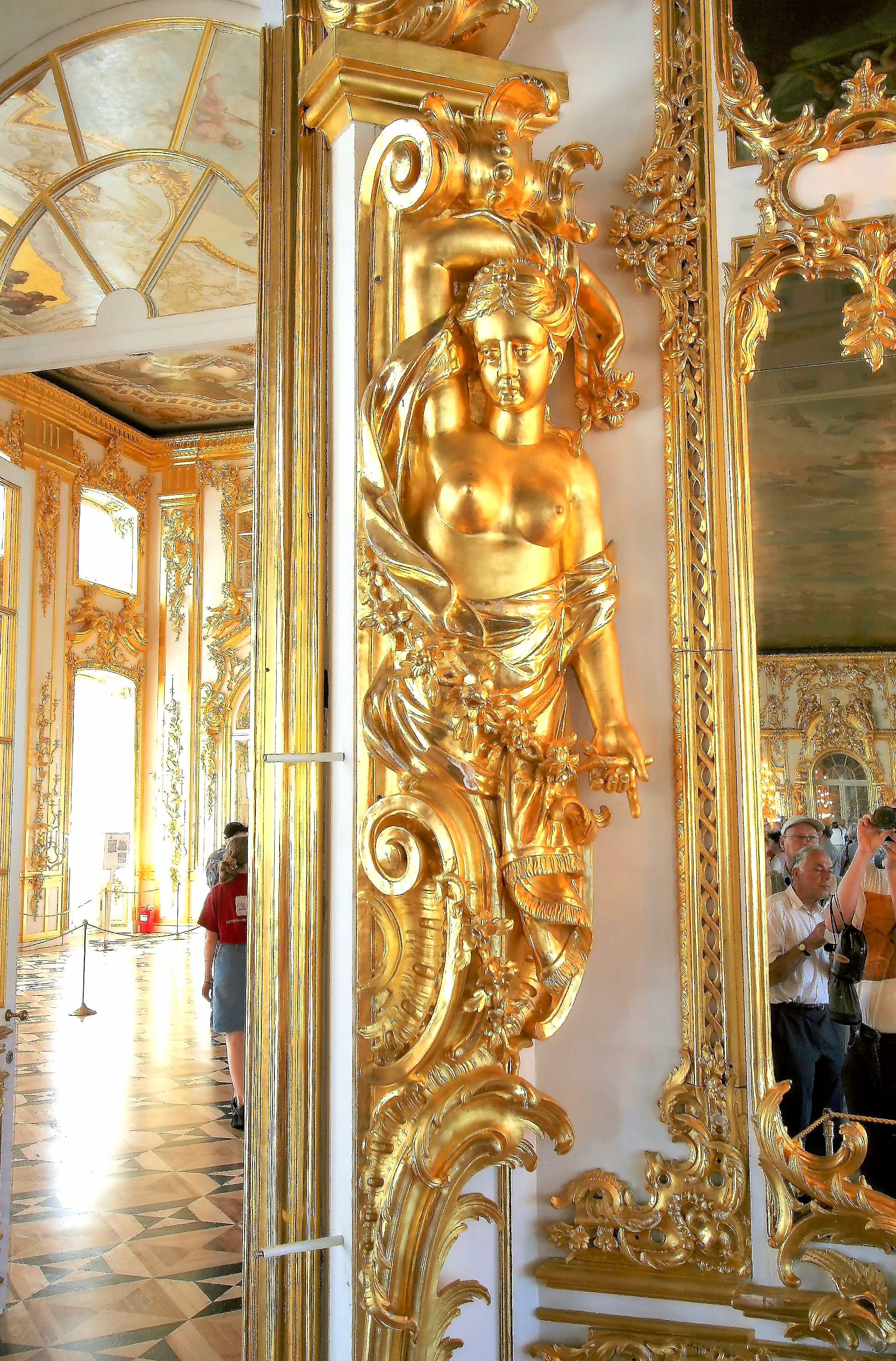 Pushkin (Russia), Great Hall of the Catherine Palace